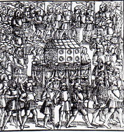 Image from "Book of Numbers" of Francysk Skarynaб 1519